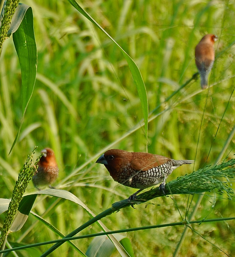 Lonchura punctulata. From Bogor, West Java, Indonesia